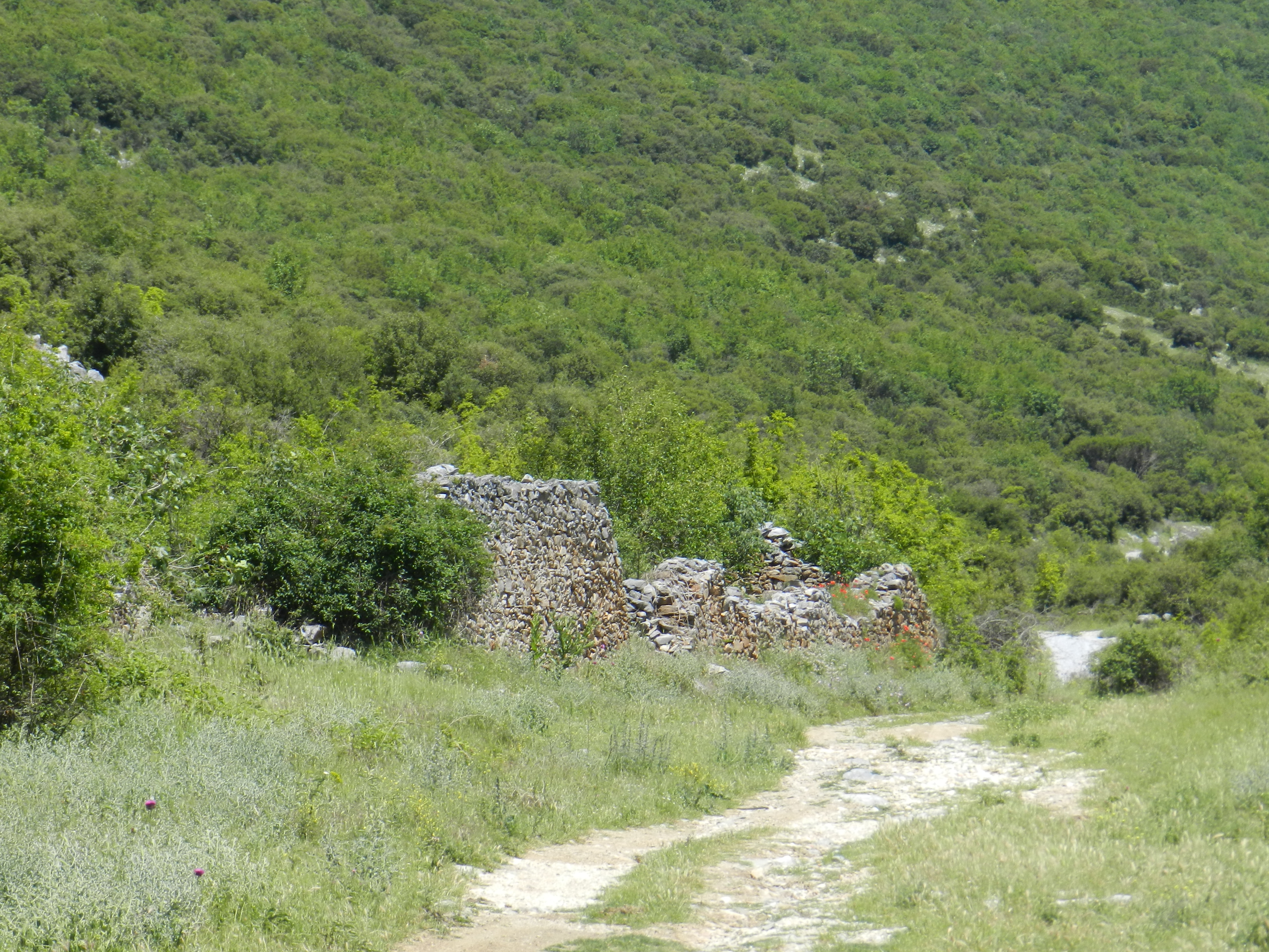 Some Turkish home ruins in Vathylakkos